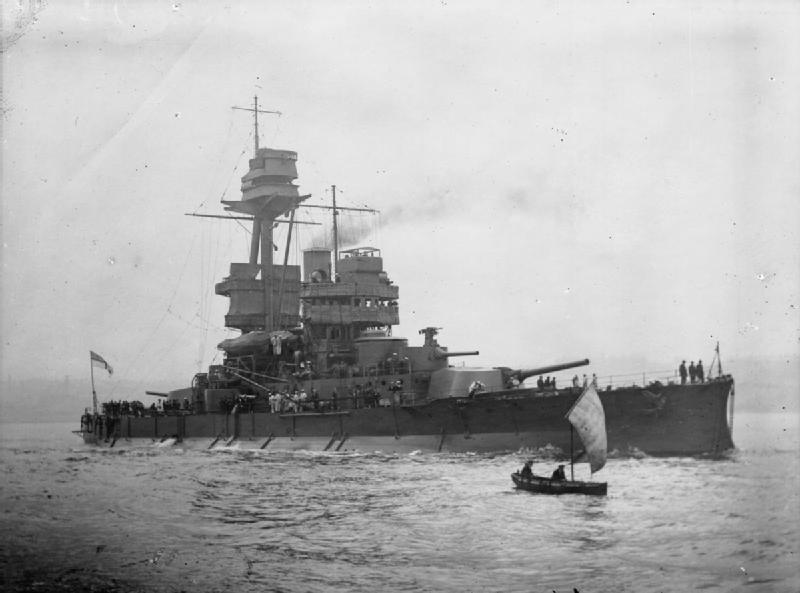 British monitor HMS Glatton.